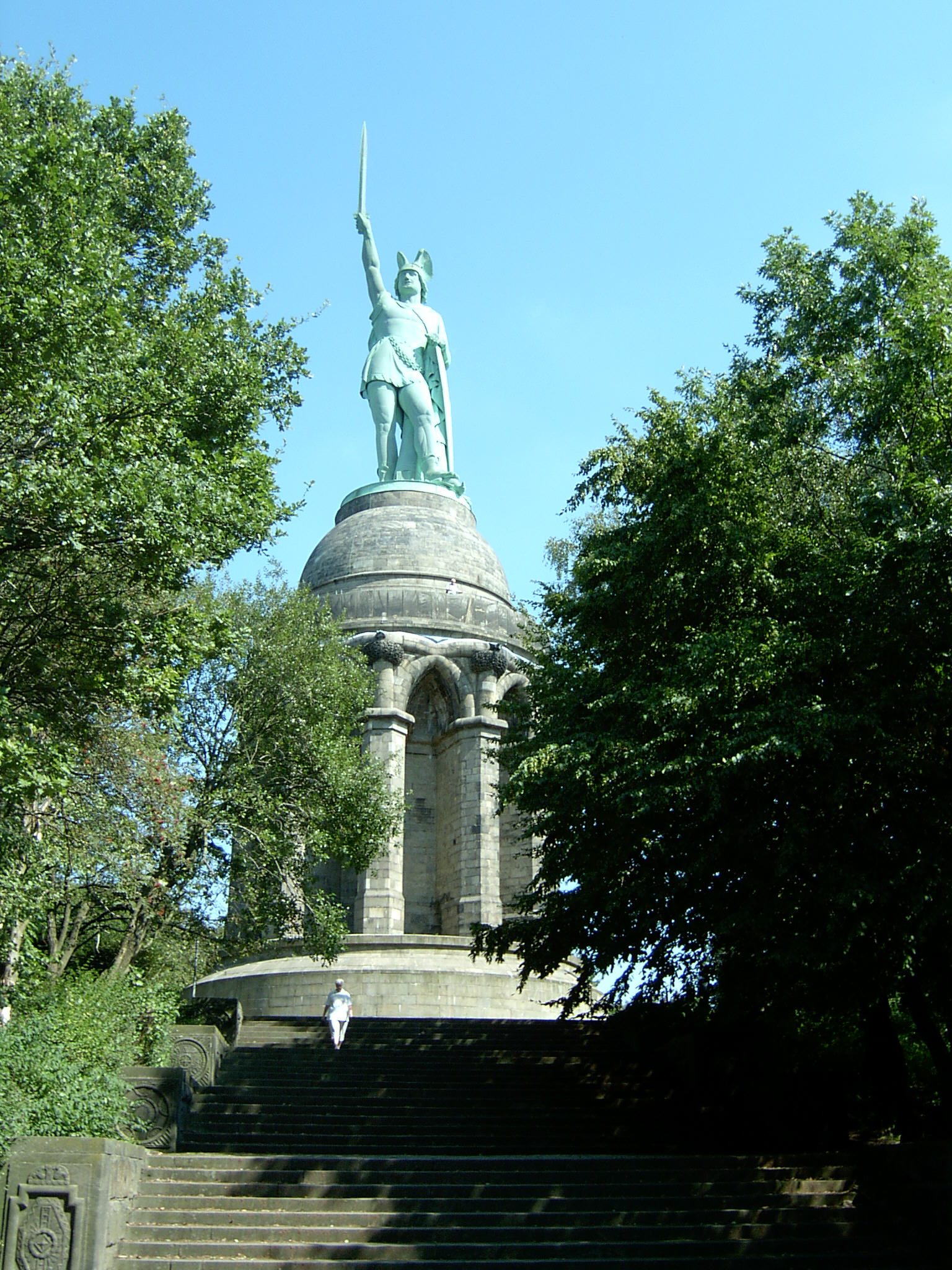 Monument of Hermann in Teutoburg Forest, Germany